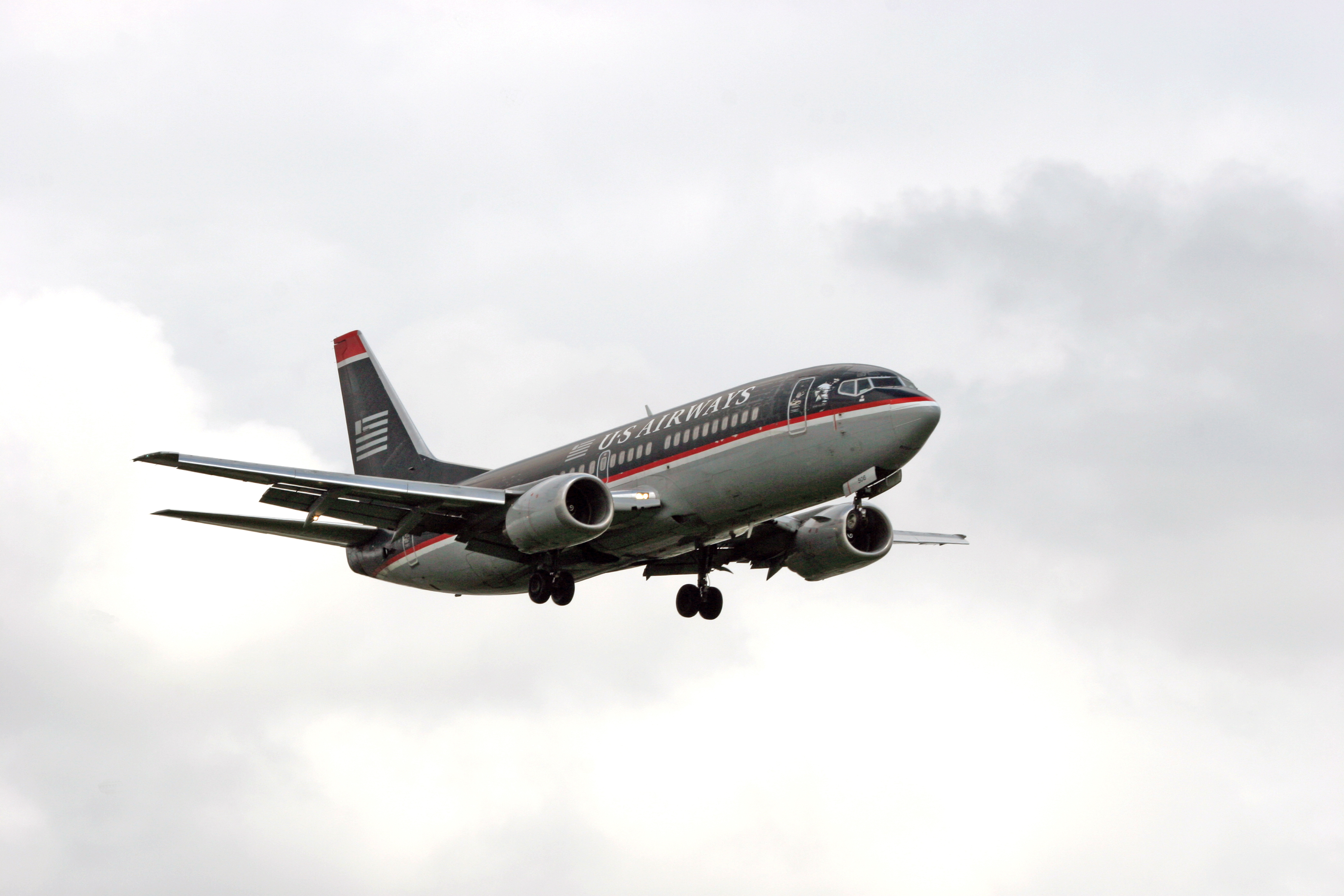 US Airways Boeing 737-3B7 N506AU